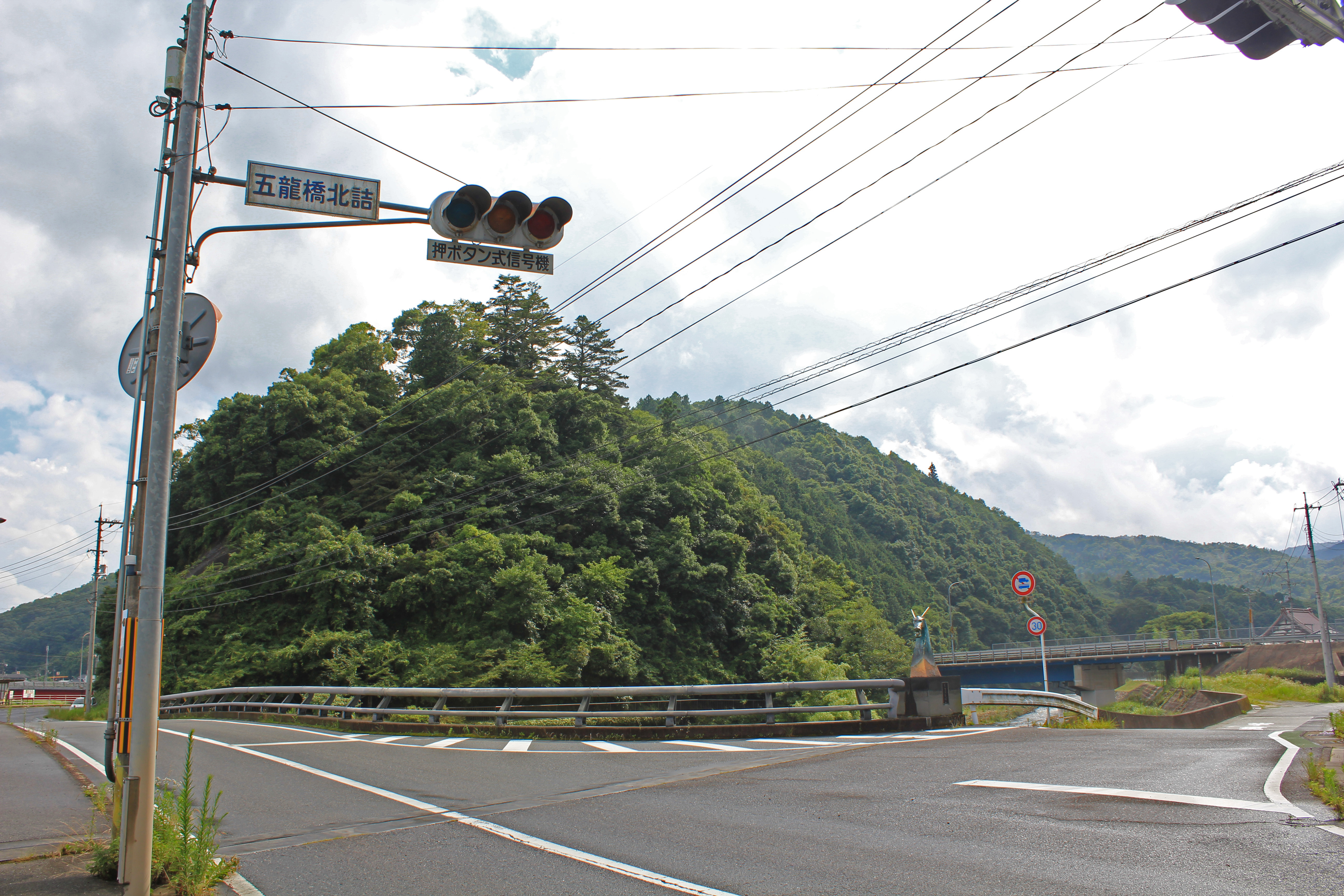 GoryuCastle in Hiroshima Prefecture Takada City Aki